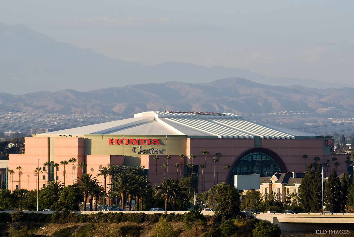 Honda Center in 2010